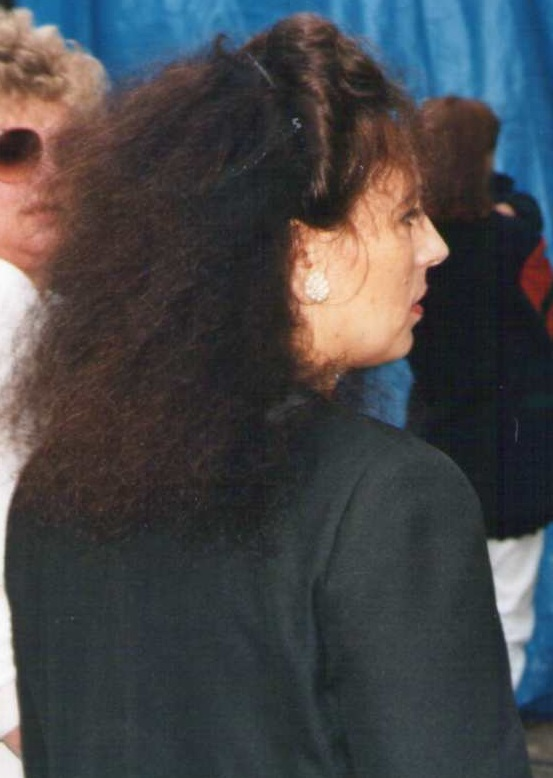 Rear shot of Sandra Lee-Vercoe in the 1990's